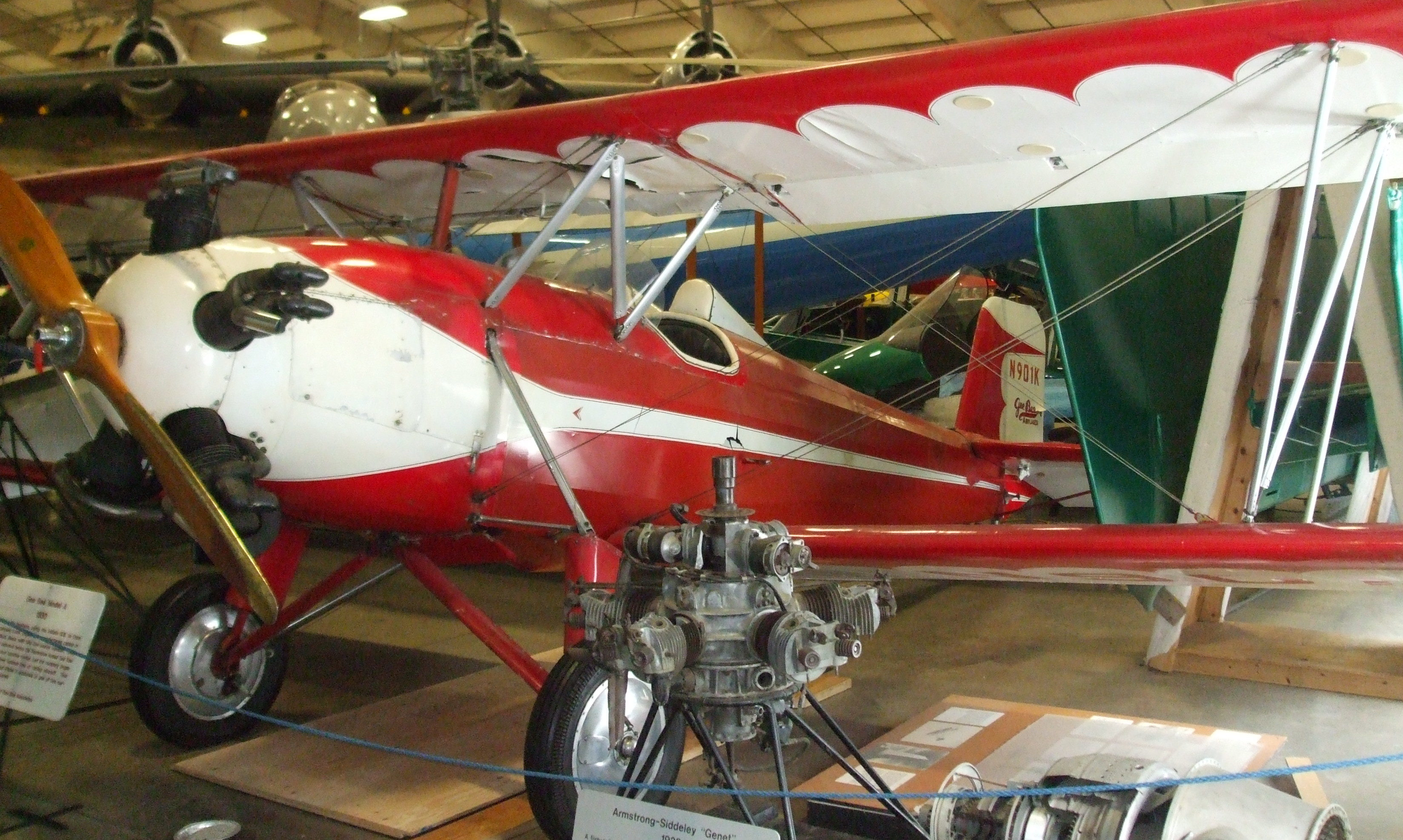 Gee Bee Model A Sportster (N901K), two place biplane at the New England Air Museum, Windsor Locks, CT, USA